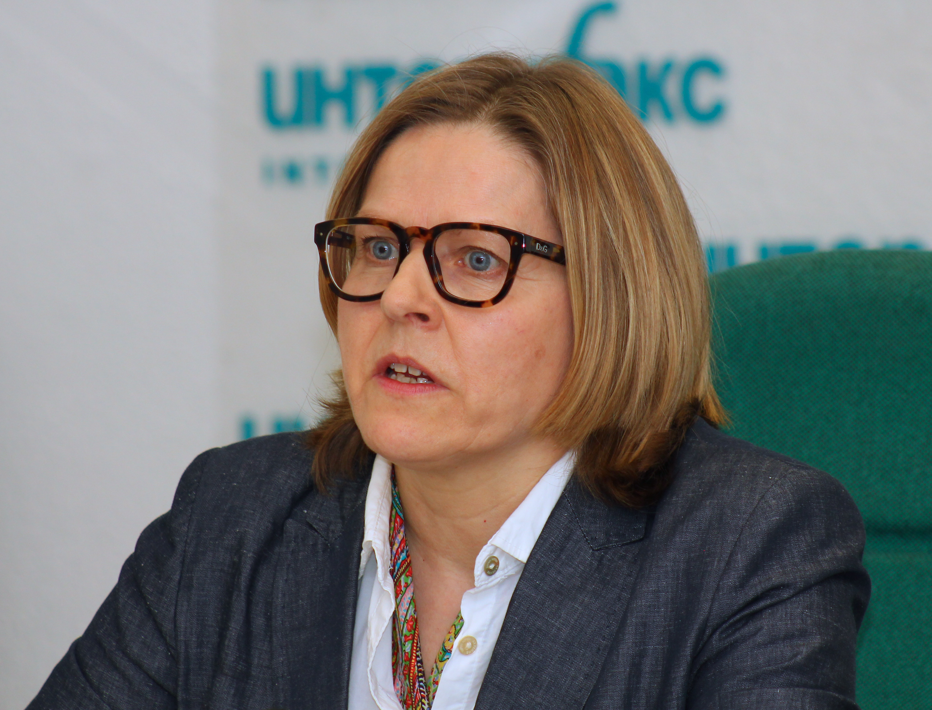 Heidi Hautala, a finnish politician